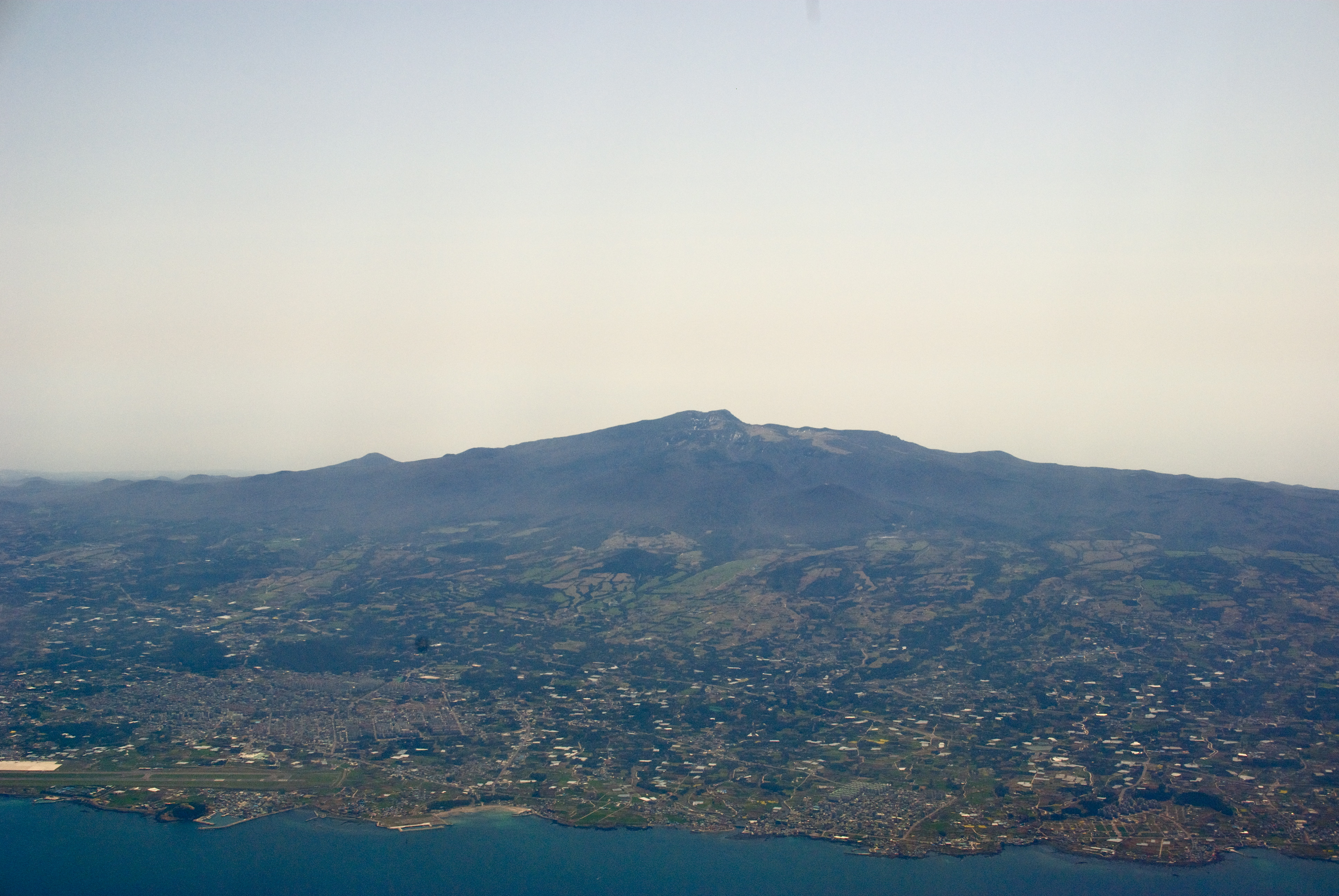 Hallasan and part of Jeju city.